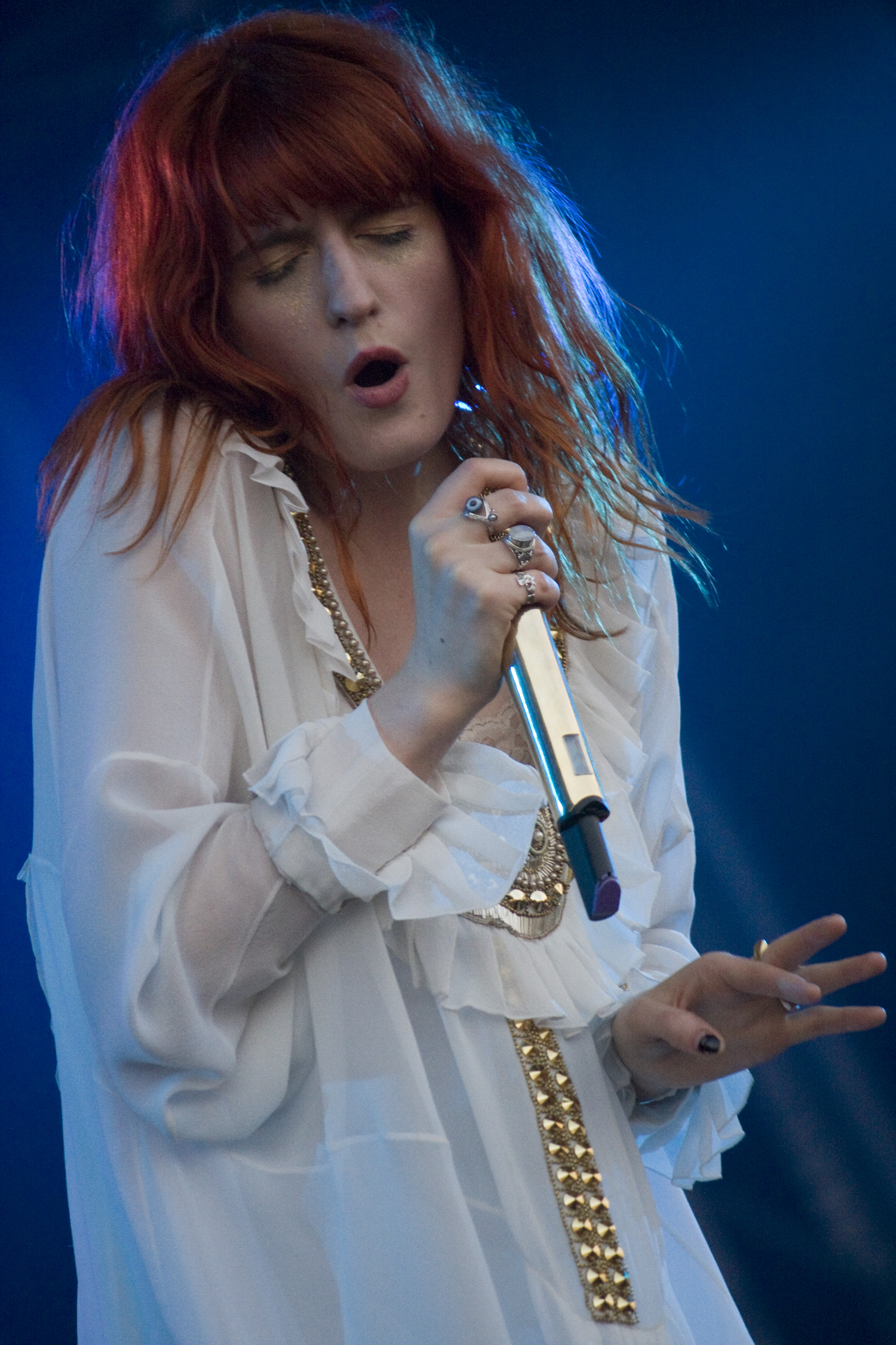 Florence and the Machine in Barcelona, Spain.